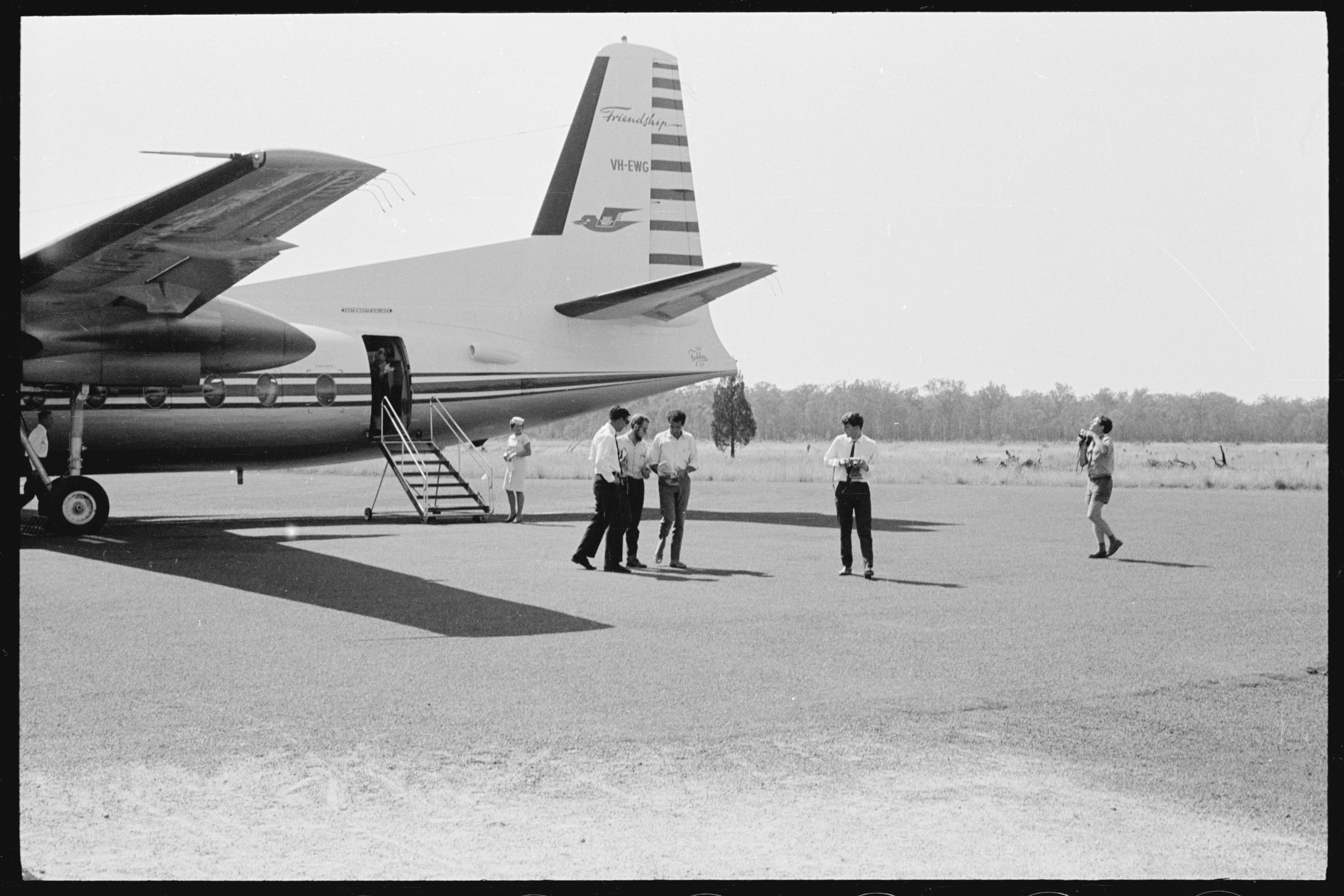 Aboriginal activist Charles Perkins greeted on tarmac at Inverell Airport in Australia